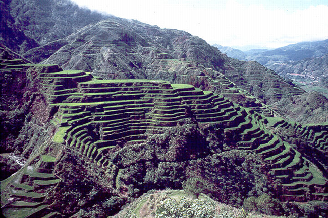 Banaue Rice Terraces in the Philippines Where Traditional Landraces Have Been Grown for Thousands of Years.